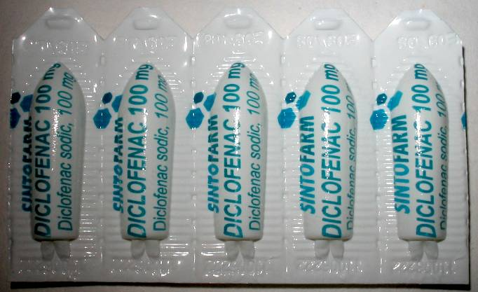 Sintofarm